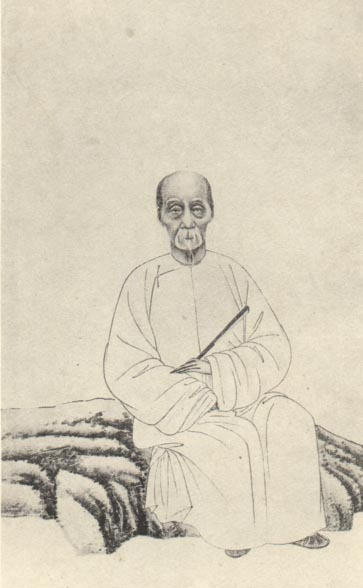 FAN Zengxiang, scholar of the Qing Dynasty.